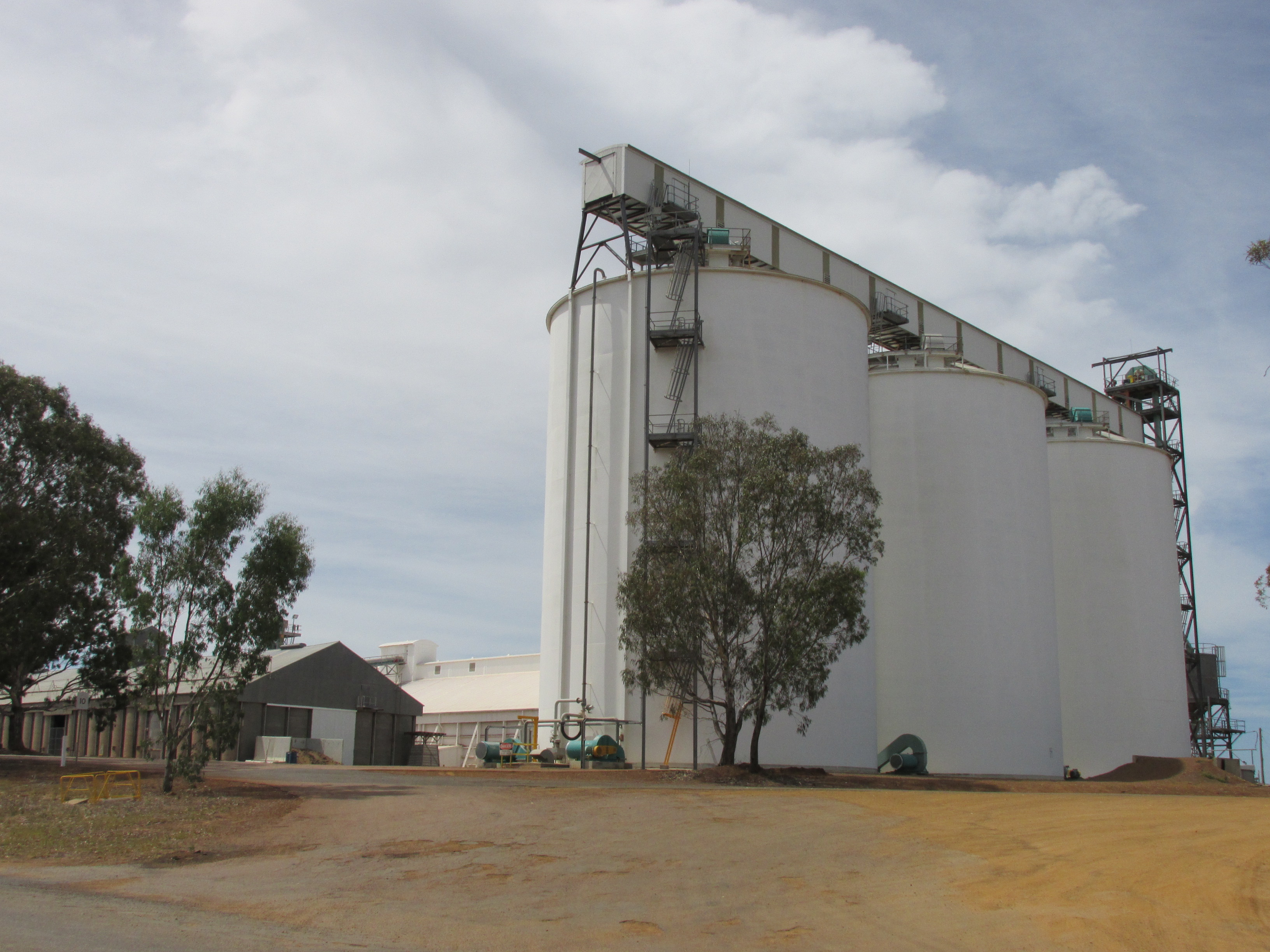 Ravensthorpe grain receival point to the west of the town of Ravensthorpe, Western Australia